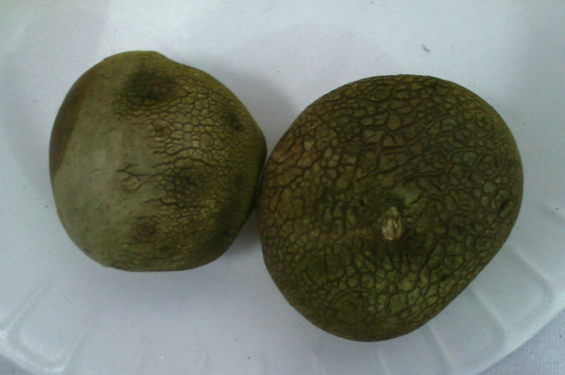 അടതാപ്പ്